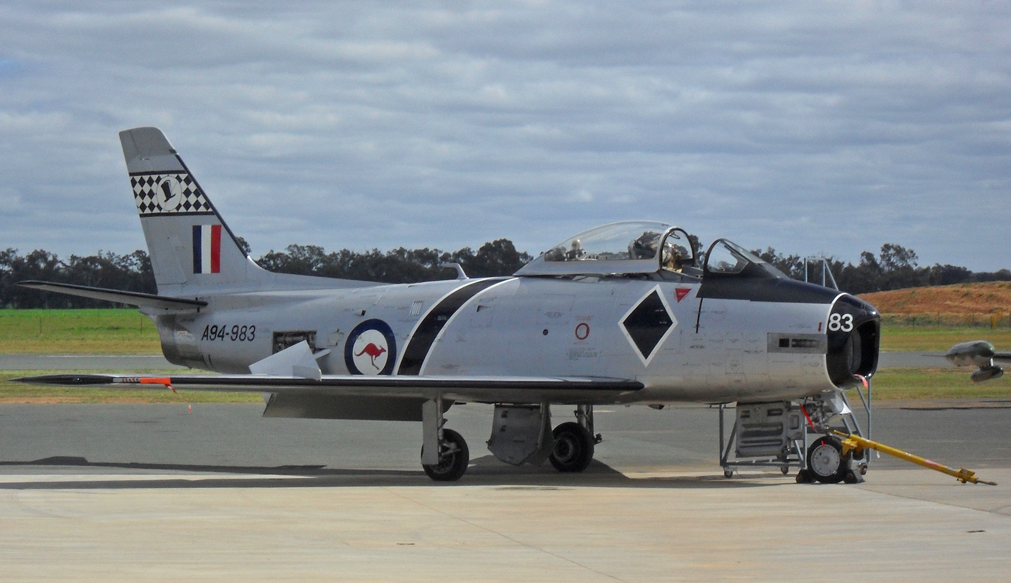 A94-983 Mk.32 CAC Sabre (Construction number: CA27-83) on display at Temora Aviation Museum.